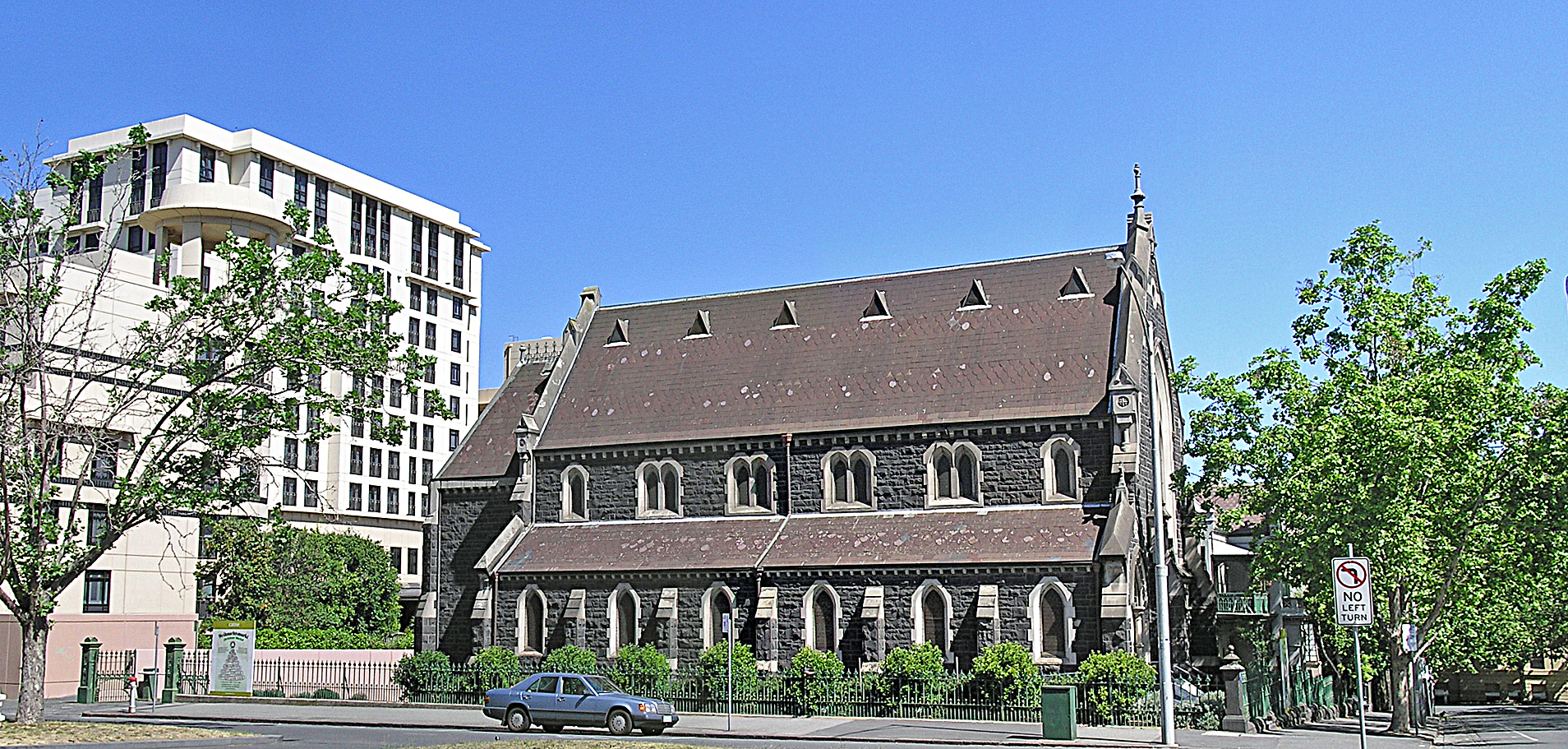 The German Lutheran Church, Hall & Manse was granted this site in 1852, East Melbourne